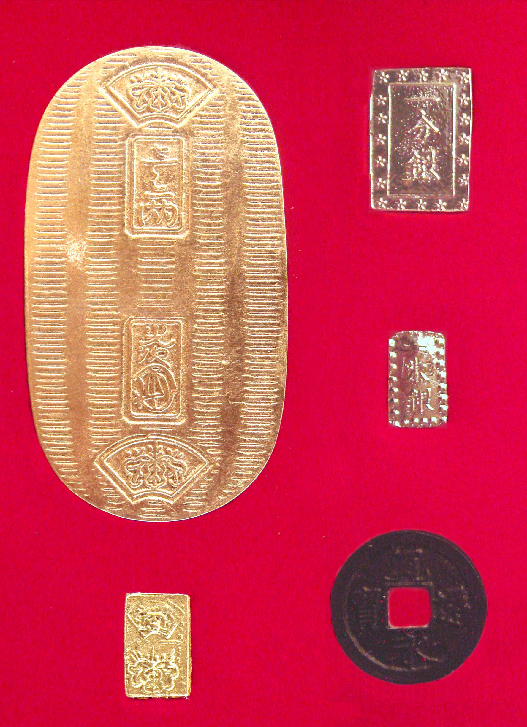 Tokugawa coinage during the Edo Period (around 1714).